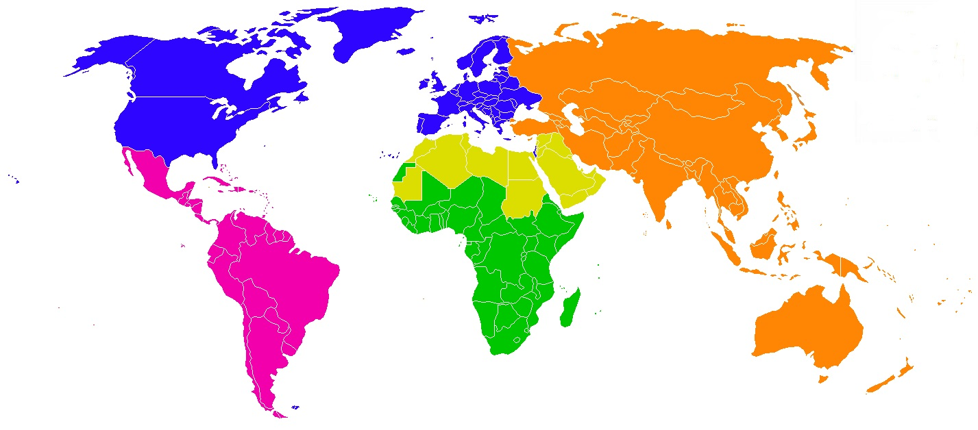 Map of UNESCO Regions in order to localize World Heritage Sites.